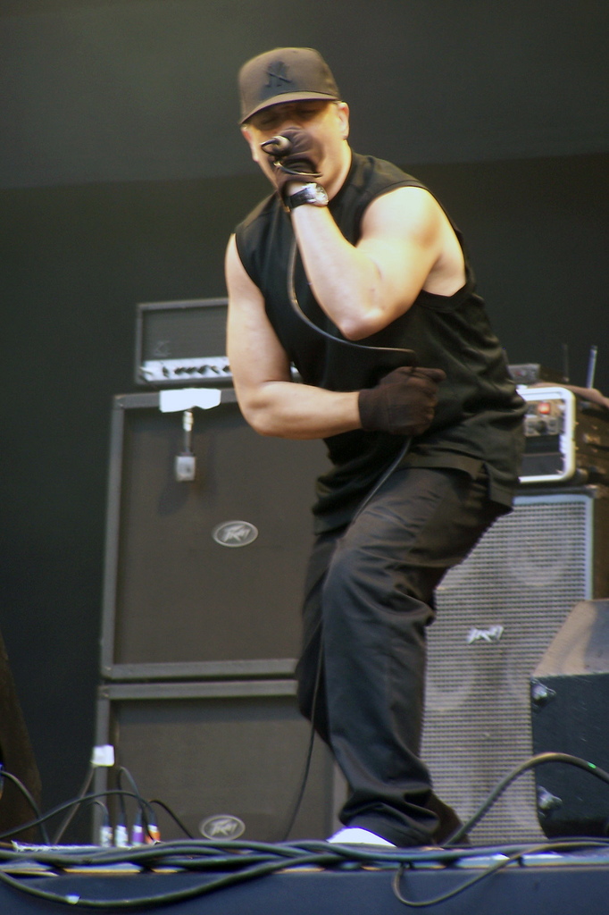 Body Count is the eponymous debut album of American heavy metal band Body Count. Released in 1992, the album material focuses on various social and political issues ranging from police brutality to drug abuse. The album presents a turning point in the career of Ice-T (pictured), who co-wrote the album's songs with lead guitarist Ernie C and performed as the band's lead singer. Previously known only as a rapper, Ice-T's work with the band helped establish a crossover audience with rock music fans. The album produced one single, "There Goes the Neighborhood". Body Count is best known for the inclusion of the controversial song "Cop Killer", which was the subject of much criticism from various political figures, although many defended the song on the basis of the group's right to freedom of speech. Ice-T eventually chose to remove the song from the album, although it continues to be performed live. While the album received mixed reviews, it was ranked among The Village Voice's list of the 40 Best Albums of 1992, and is believed to have helped pave the way for the mainstream success of the rapcore genre, although the album itself does not feature rapping in any of its songs.